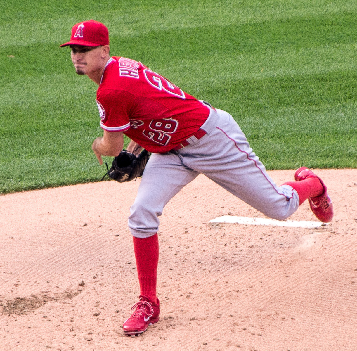 Angels vs. Rockies, Coors Field, Denver, July 7, 2015 (by Kent Kanouse). Heaney (2-0) gave up two runs in 7 1/3 innings for the win.